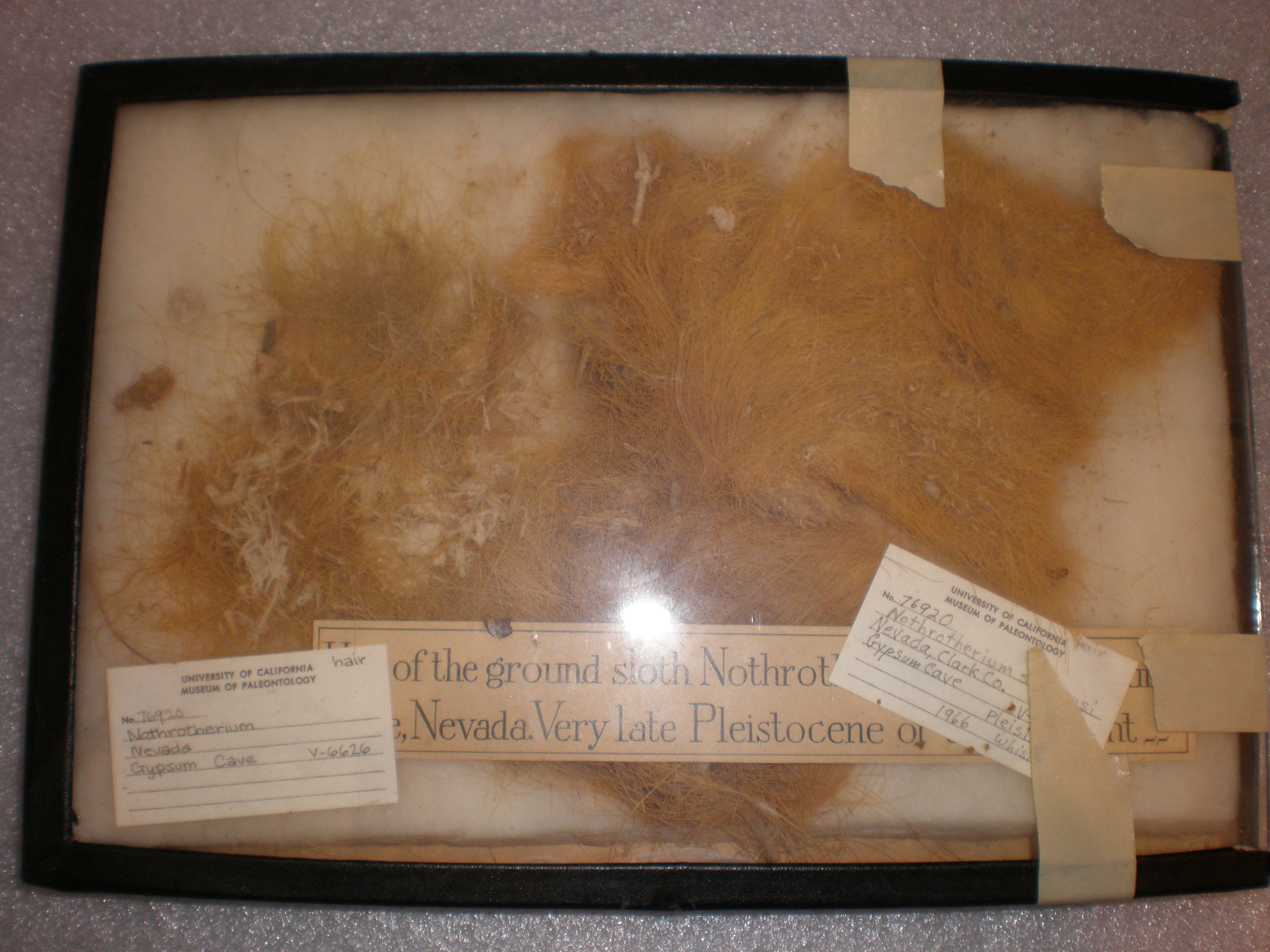 Nothrotherium hair on display at the University of California Museum of Paleontology in Berkeley, California.